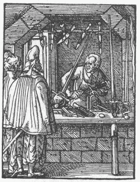 Cutler